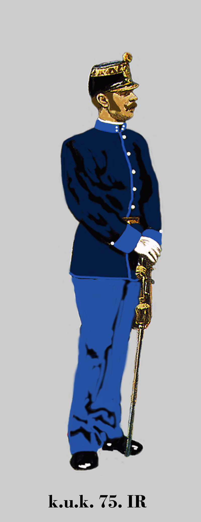 1st Lieutenant of the Austria-Hungarian (k.u.k.). 75th german Infantry Regiment in Parade dress. 1914